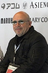 Nikolai Velikov at the 2010-2011 Junior Grand Prix of Figure Skating Final.